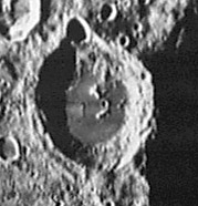 Lyapunov lunar crater - Lunar Orbiter IV image LO-iv165-h3